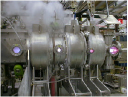 NASA image of VASIMR rocket test